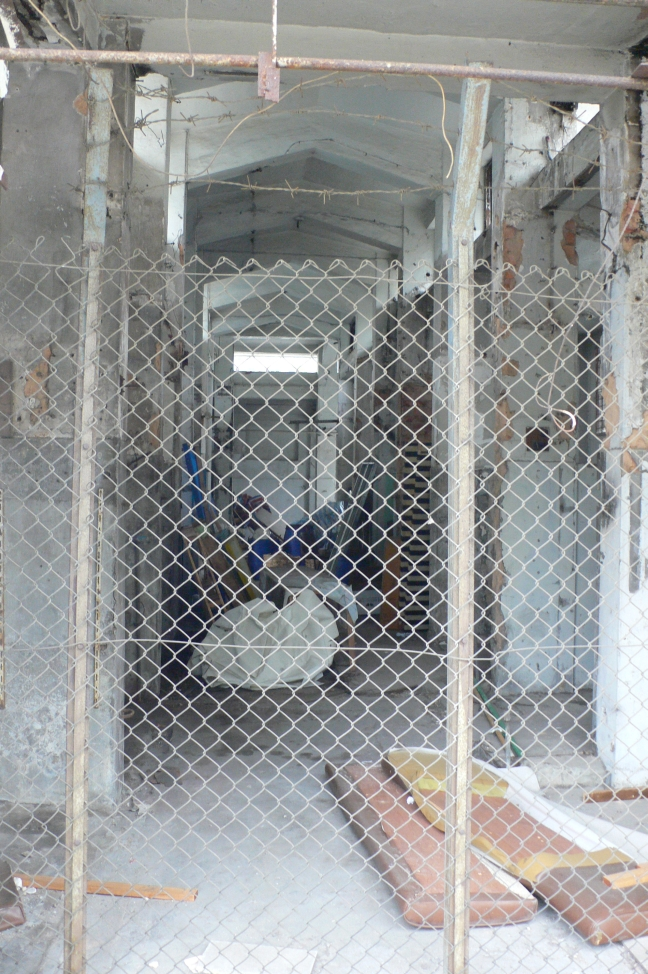 After taking the film "每當變幻時"，The trash has never been removed.